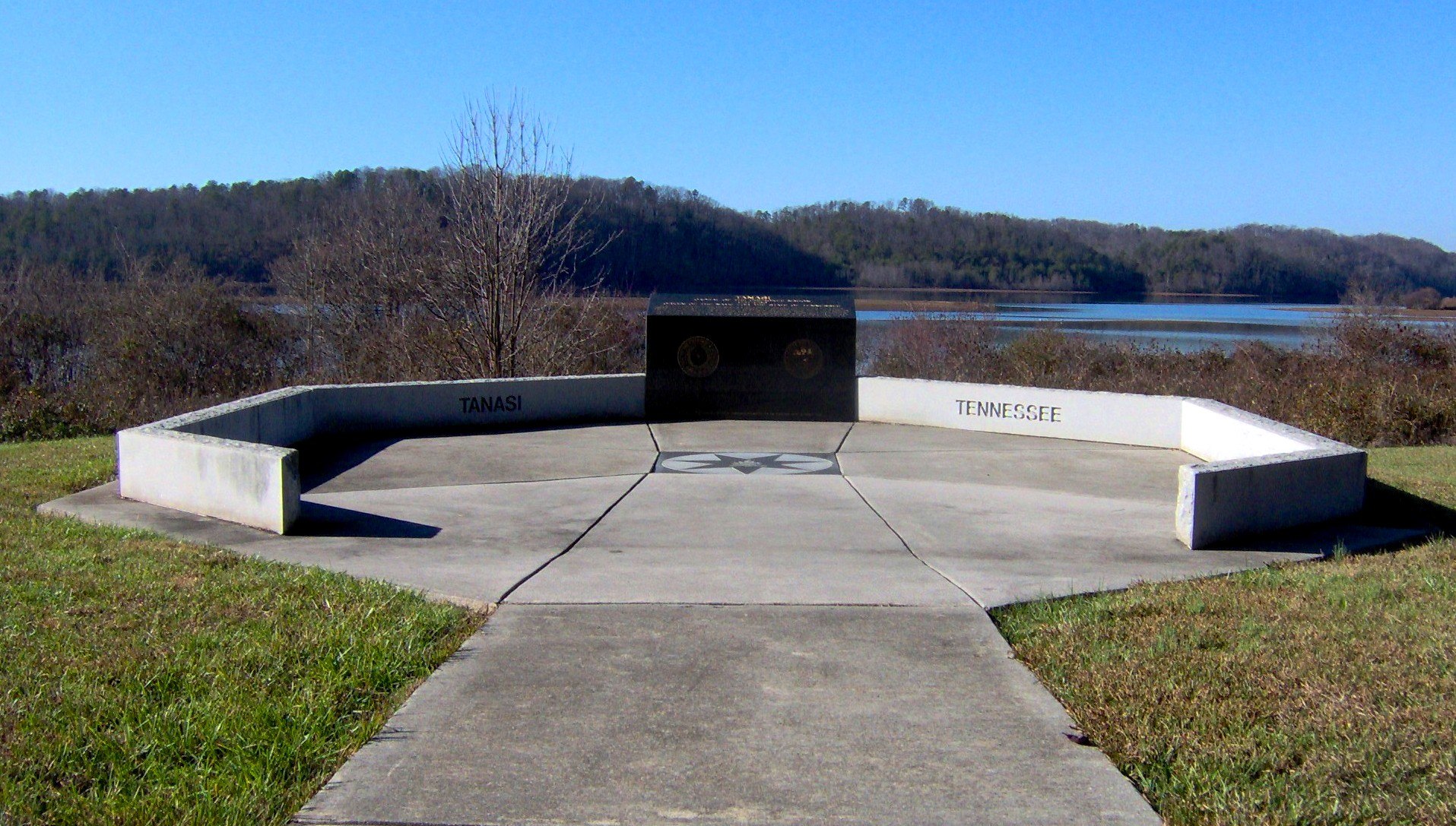 Monument recalling the 18th-century Cherokee village of Tanasi in modern Monroe County, Tennessee, in the southeastern United States. The monument, situated along the shoreline of the now-submerged site, recalled the town's legacy as de facto Cherokee capital in the early 1700s and the namesake for the state of Tennessee.